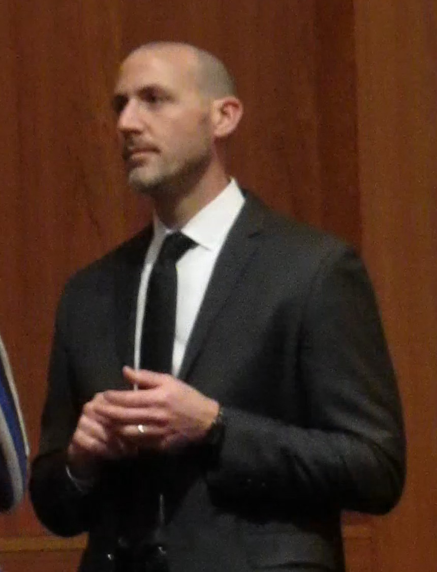 Adam S. Miller at an "unplugged" discussion about his book Letters to a Young Mormon.